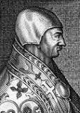 A lithography of Pope Sergius II, made before 1923